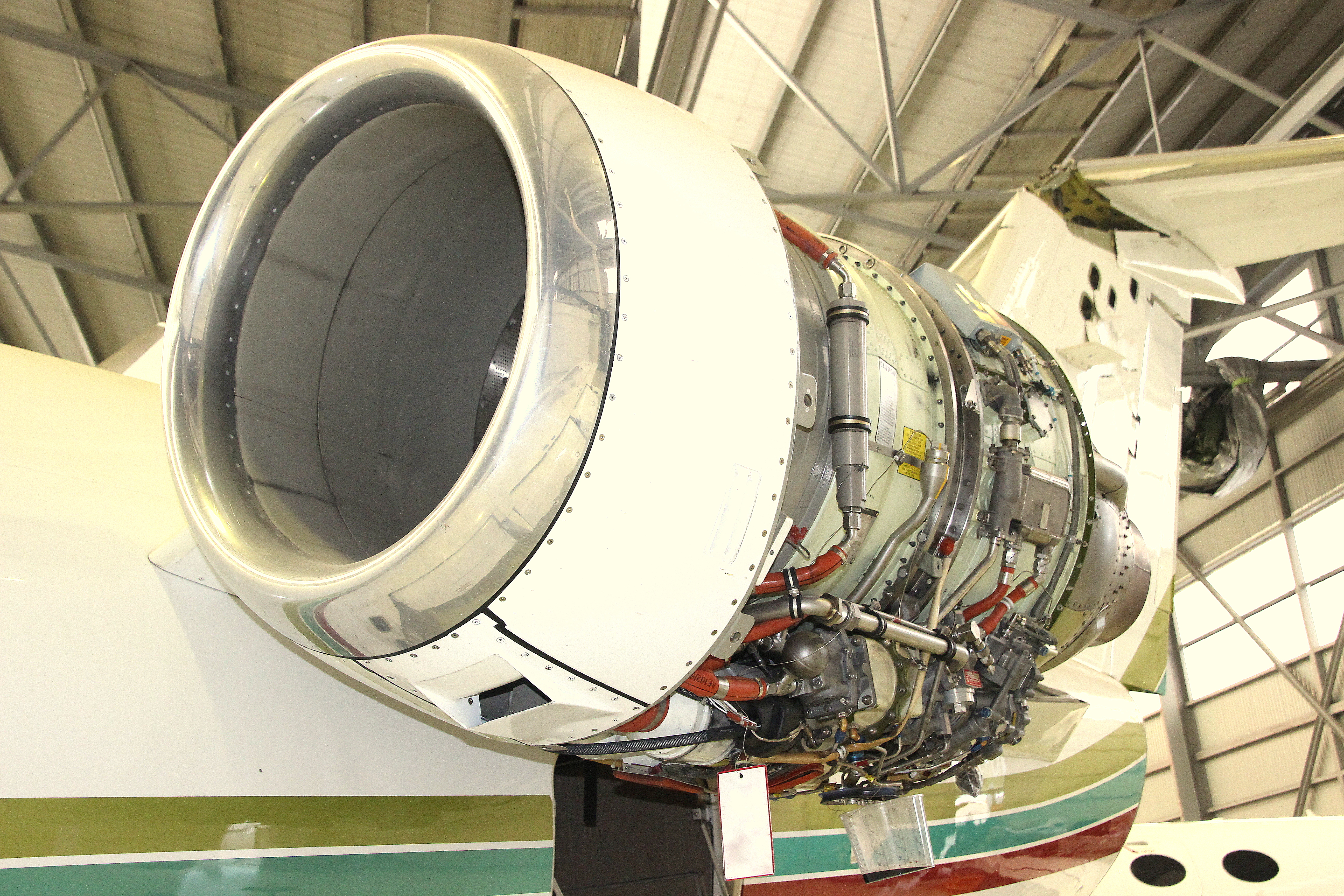 A Garrett TFE731 engine mounted on the left pylon of a Cessna 650 Citation VII undergoing maintenance. Digital image taken by YSSYguy on 10 April 2015 and uploaded for use in the Garrett TFE731 article. Image edited using Picasa software. YSSYguy (talk) 06:59, 6 November 2016 (UTC)